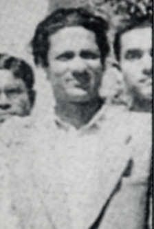 Alauddin Al-Azad (born 1932) is a renowned modern Bangladeshi author, famous novelist, poet.